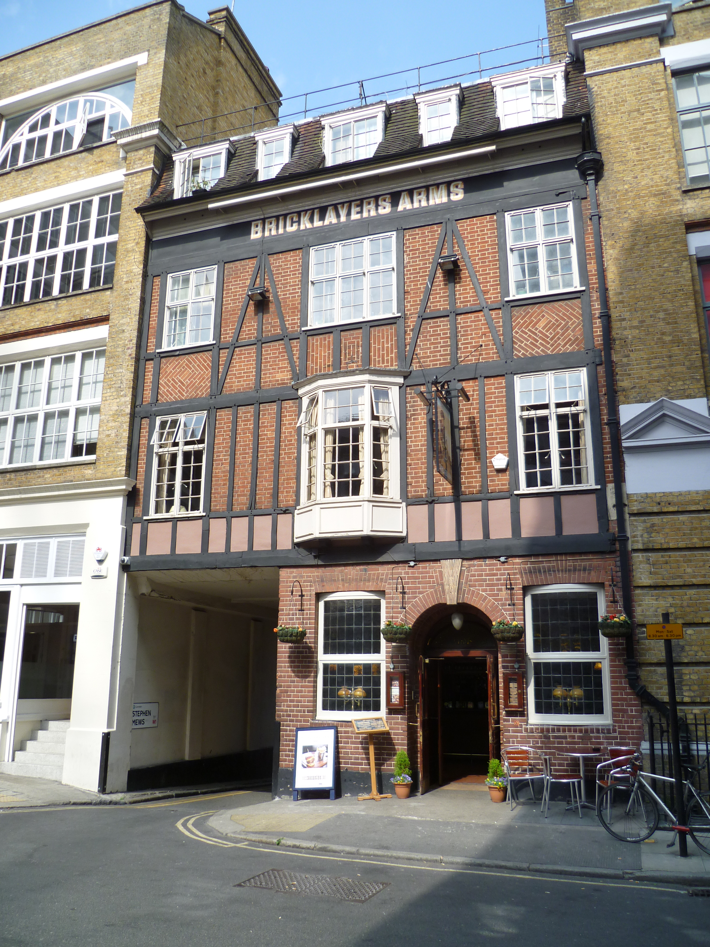 London